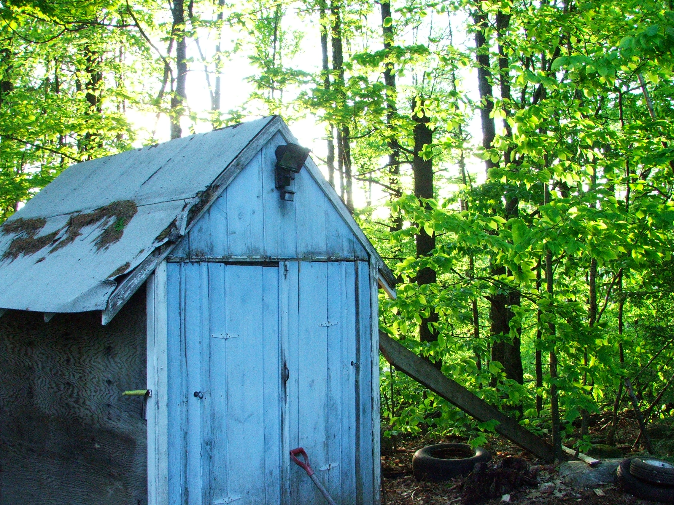 A Green Shed in Maine